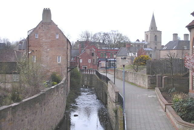 Mansfield - Mansfield - Maun Valley Trail. North of Bridge Street.